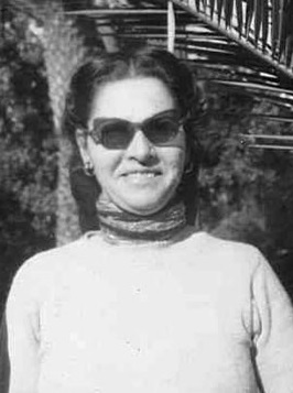 Hamdamsaltaneh Pahlavi